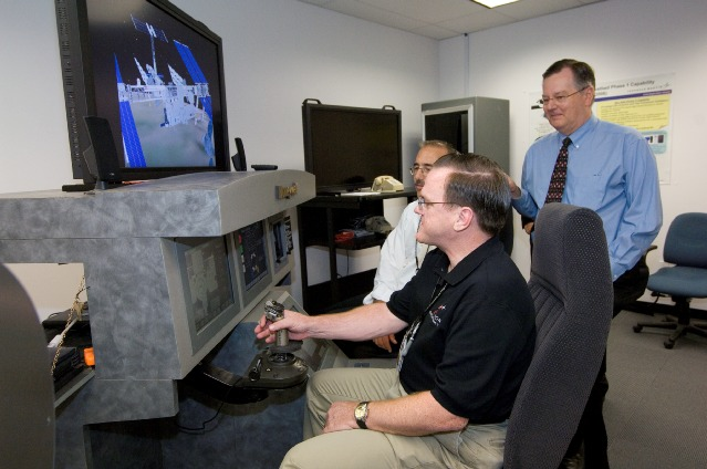 Chris A. (Skip) Hatfield, manager, Orion Project, and Cleon Lacefield, Lockheed Martin Orion Program manager, are pictured in the Orion cockpit at the Lockheed Martin Exploration Development Laboratory.